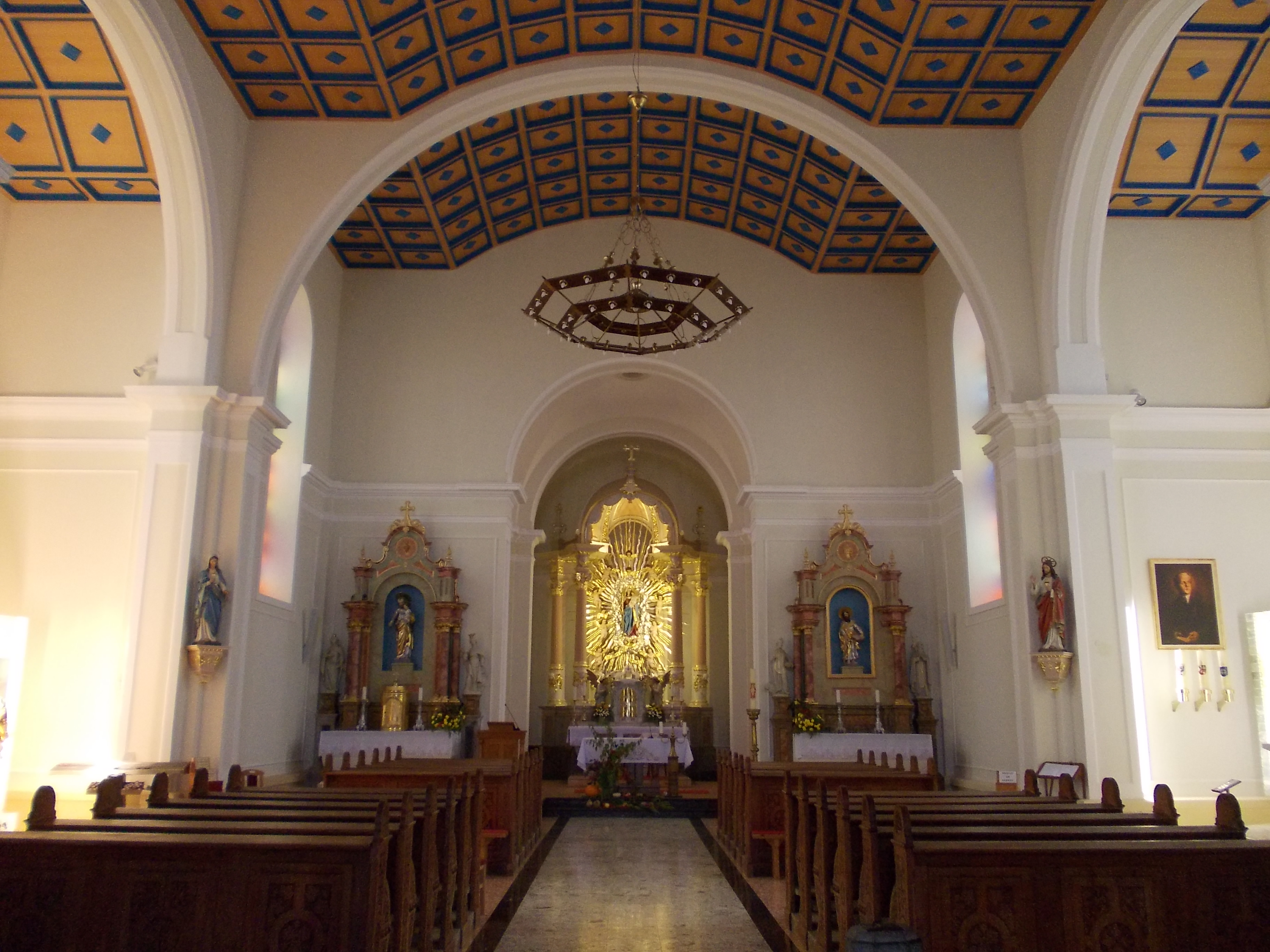 Assumption of Mary Church (Čatež)